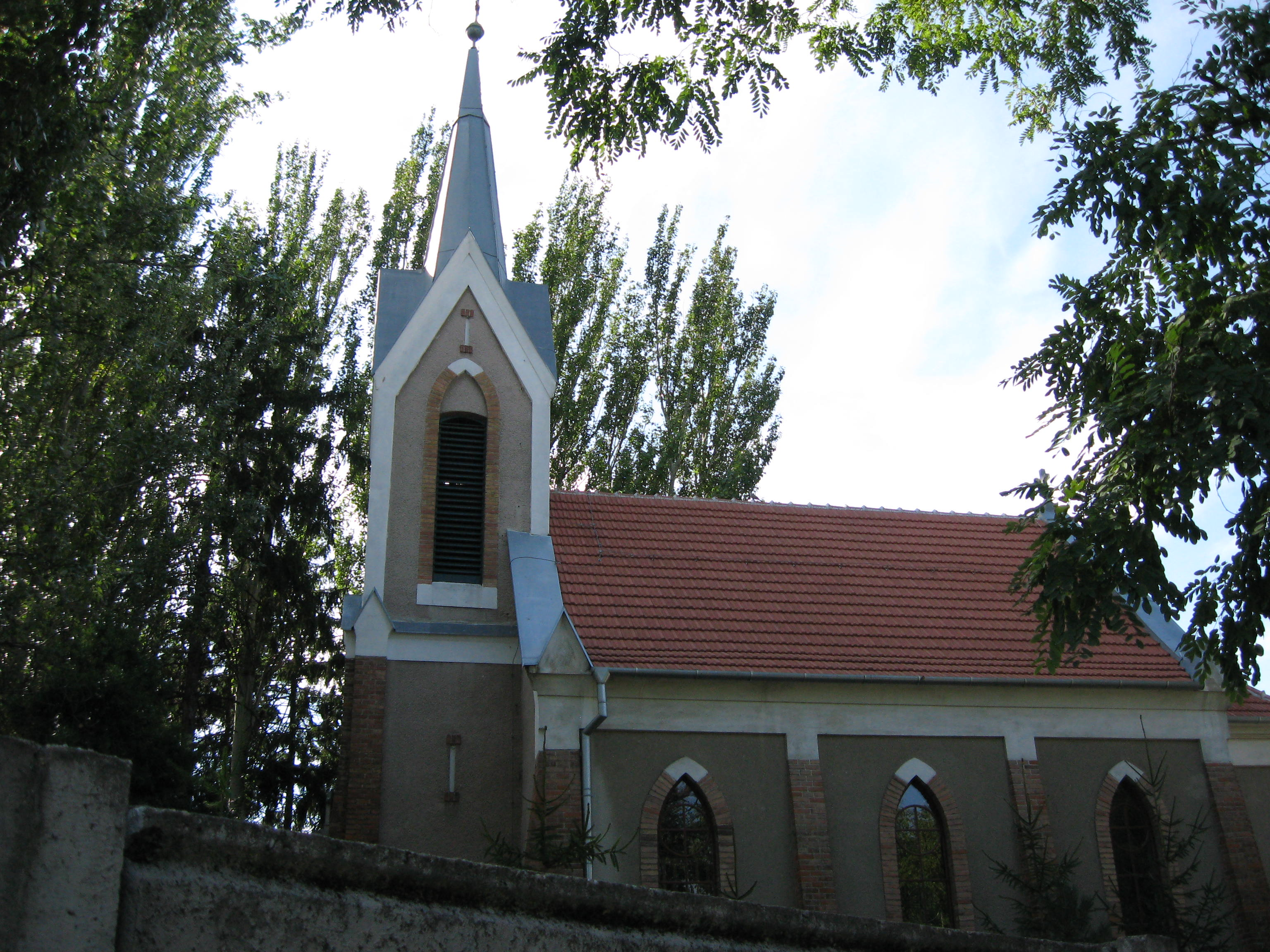 Lutheran Church in Nové Zámky